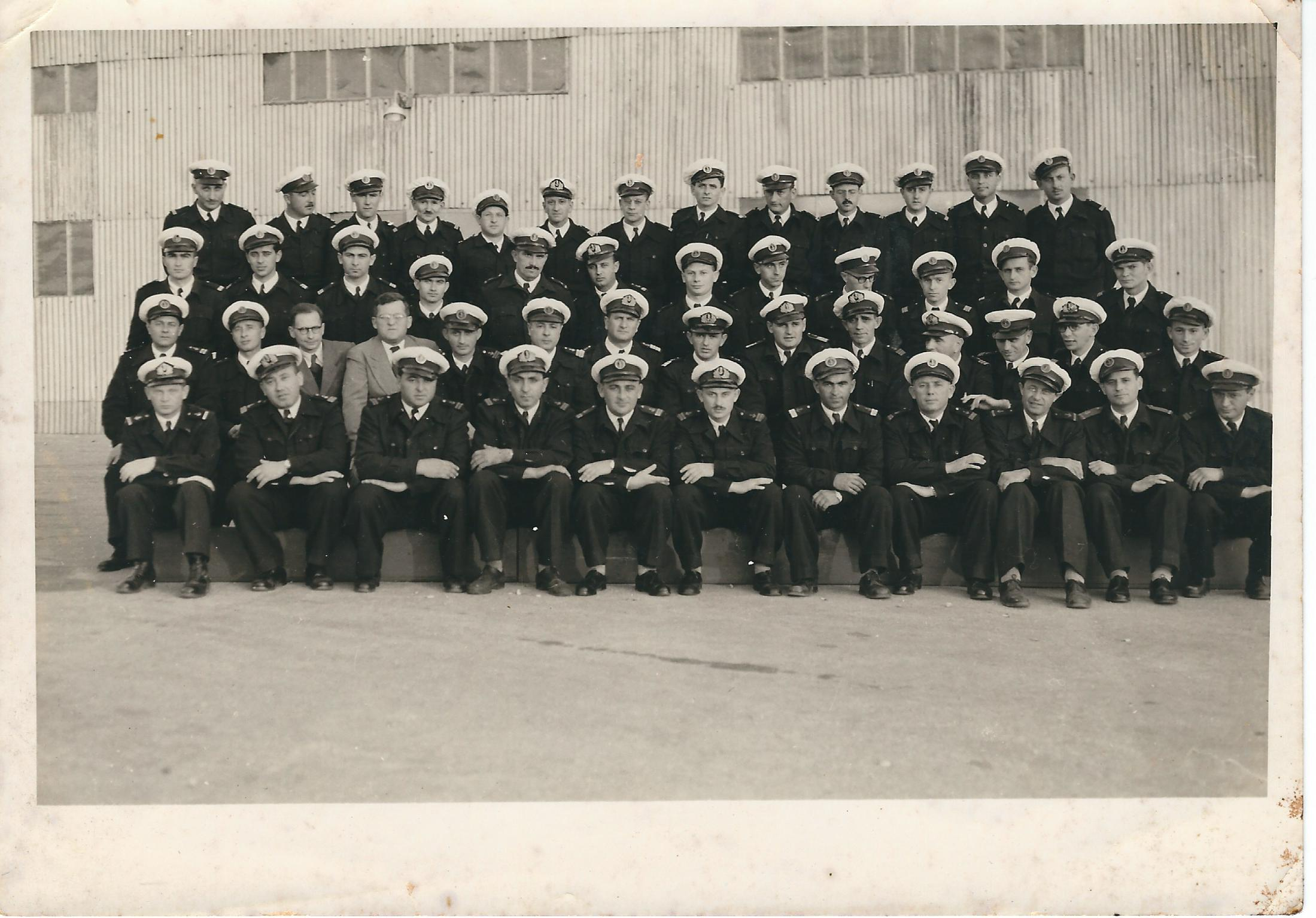 IDF Navy Engineering Officers 1949